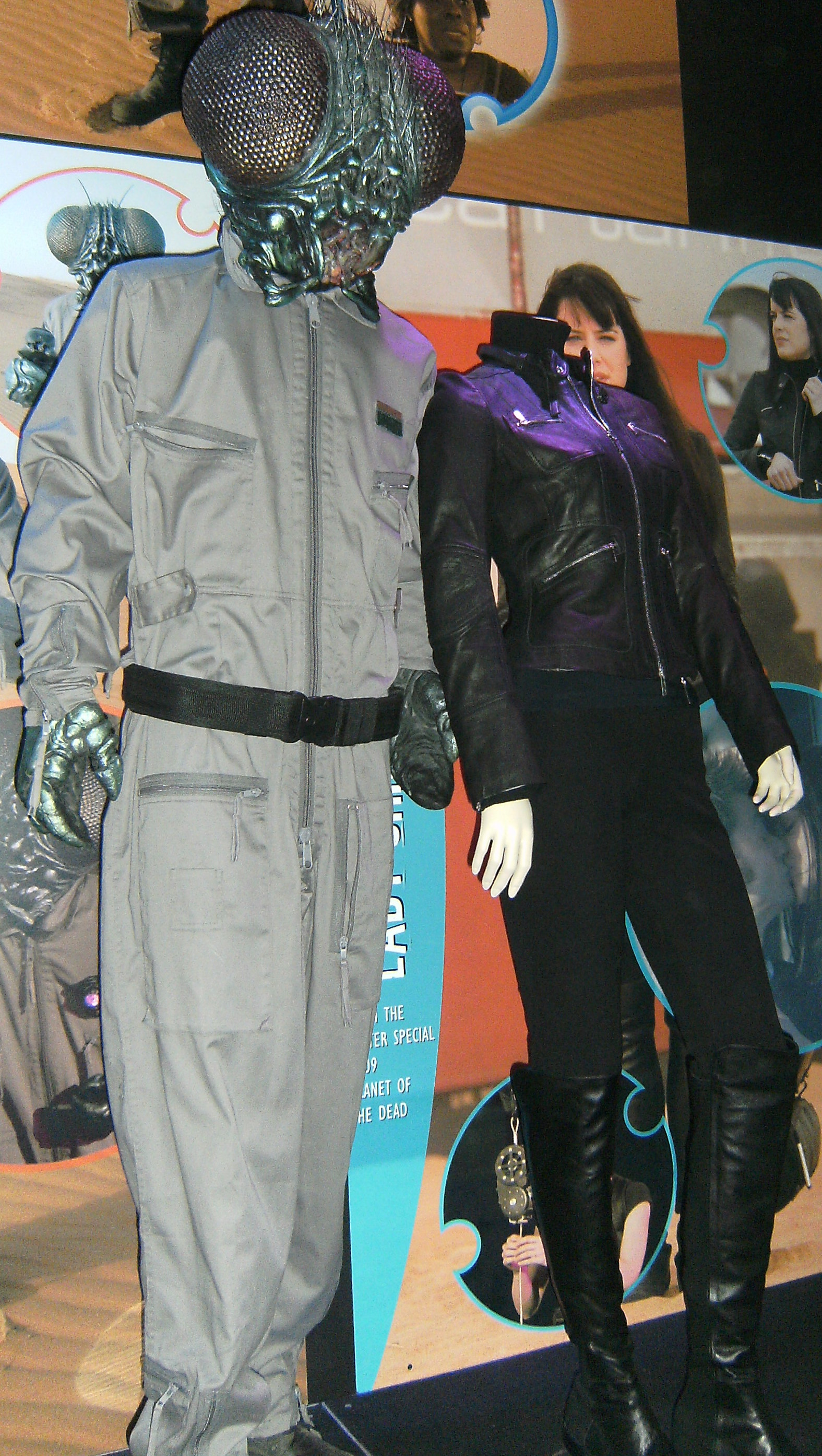 costumes from "Planet of the Dead" (Michelle Ryan); at the Doctor Who exhibition at the Red Dragon Centre at Cardiff Bay Doctor Who Experience